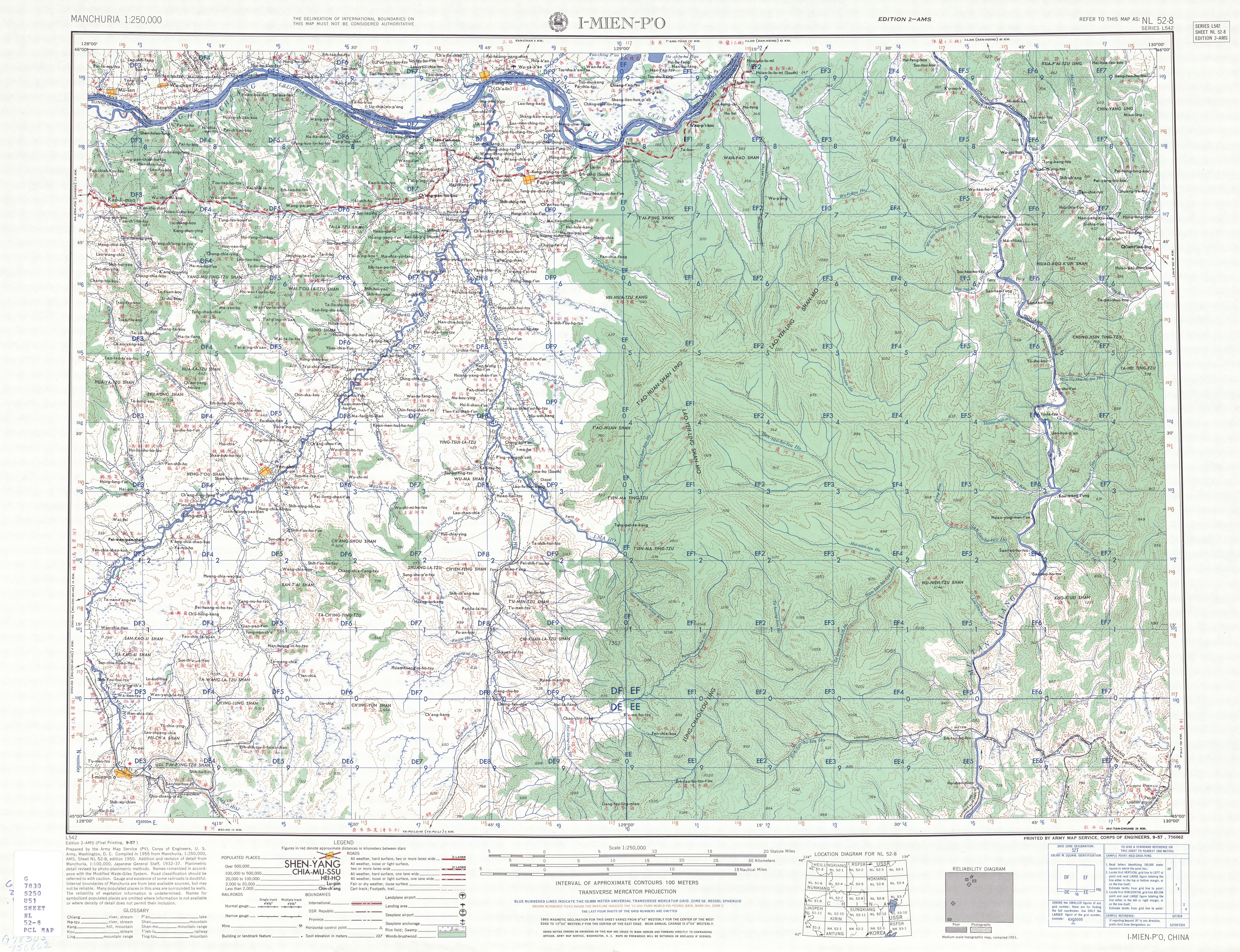 Manchuria AMS Topographic Maps